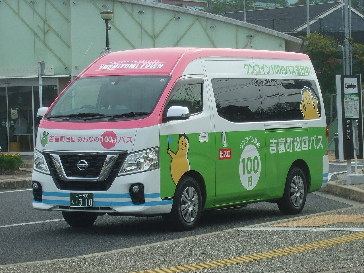 Yoshitomi Town Community Bus Company:Daiichi Kotsu Use:transit bus (community bus) Car license:OT 300 A 310 Type:Nissan Caravan Location:Yoshitomi Station, Yoshitomi Town, Fukuoka, Japan.